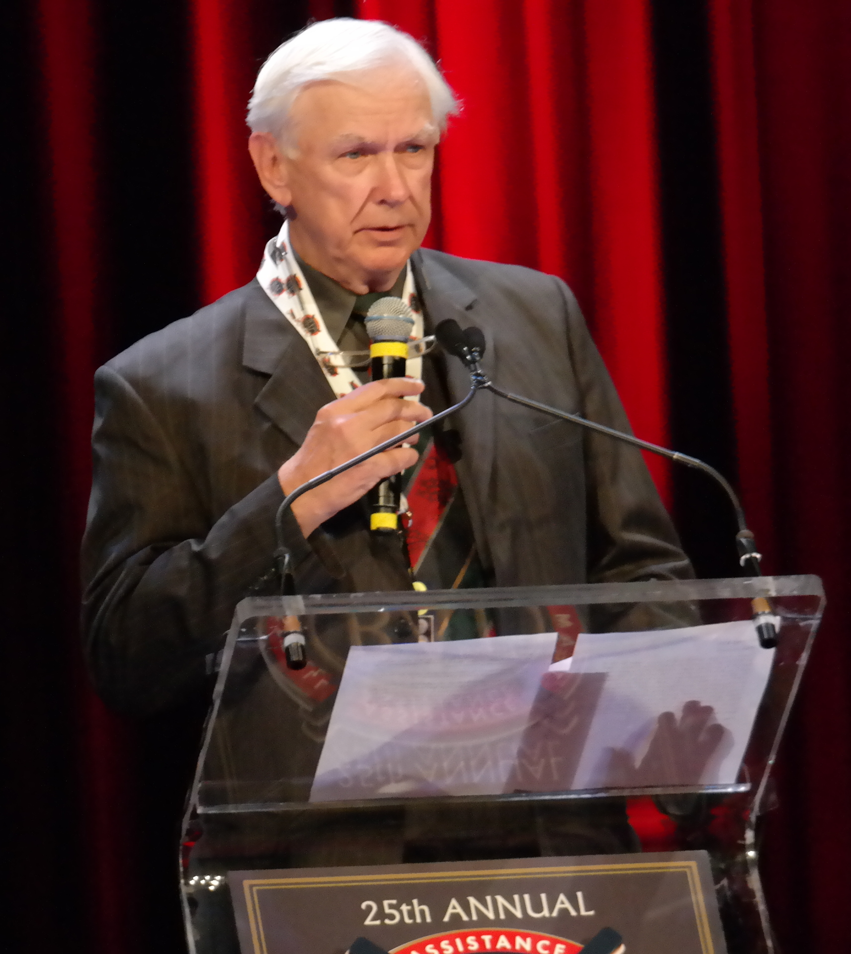 Gene "Stick" Michael receives the AL Bobby Murcer Award on behalf of the Yankees at the BAT Dinner.